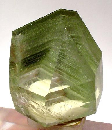 Quartz, Chlorite Locality: Corinto, Minas Gerais, Southeast Region, Brazil (Locality at ) Size: 4.2 x 3.9 x 3.3 cm. A visually striking, transparent, polished quartz crystal with really neat, layered or chevron-shaped chlorite inclusions. Rotating this showy piece gives an ever-changing interior view! The piece is from a city made famous by high quality quartz crystal diggings - Corinto, Minas Gerais. Ex. Marty Lewadny Collection.